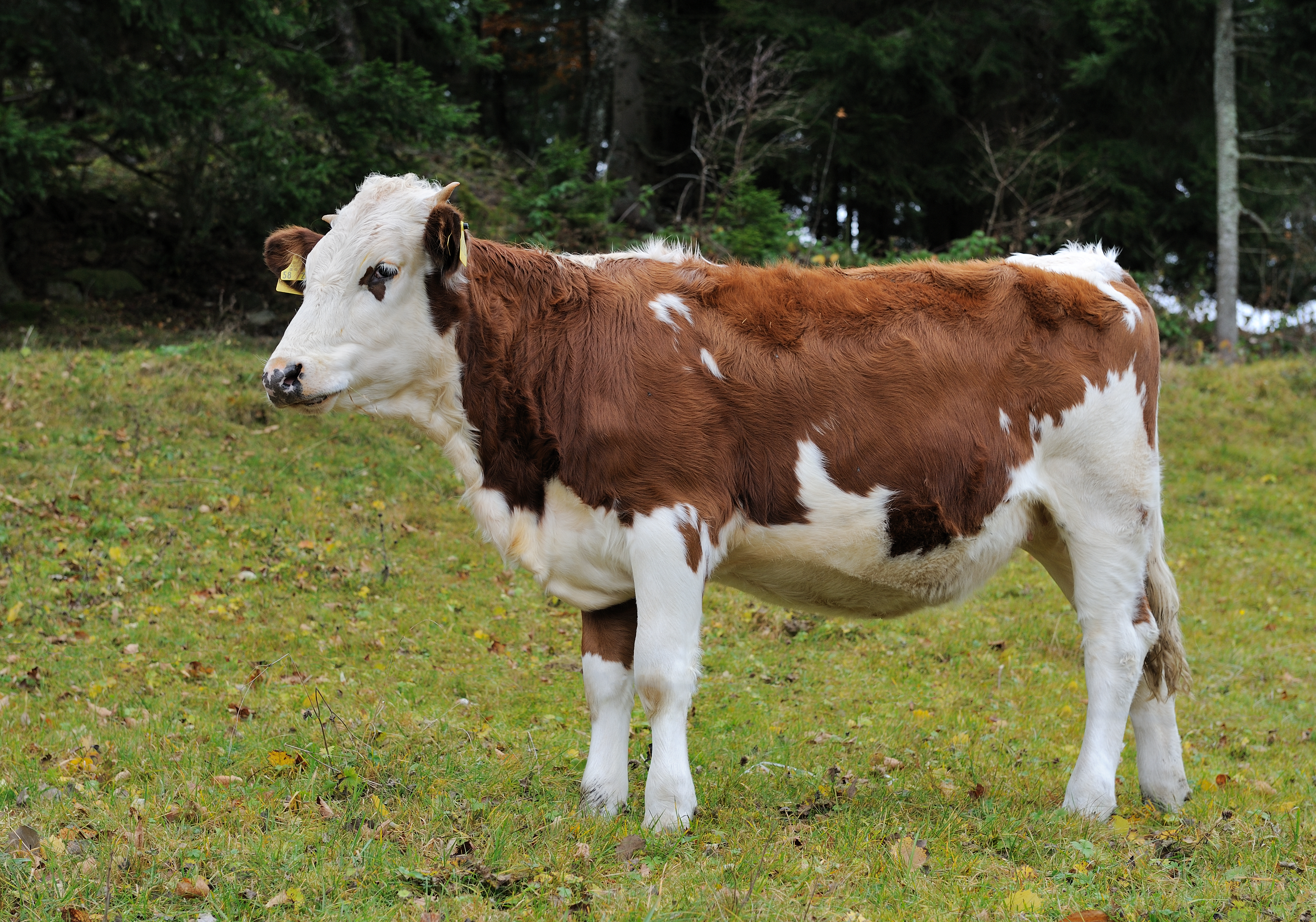 Hinterzarten, Black Forest: young female Hinterwald Cattle, a local breed of cattle.